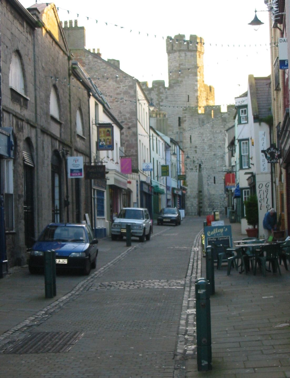 Street in Caernarfon intra muros